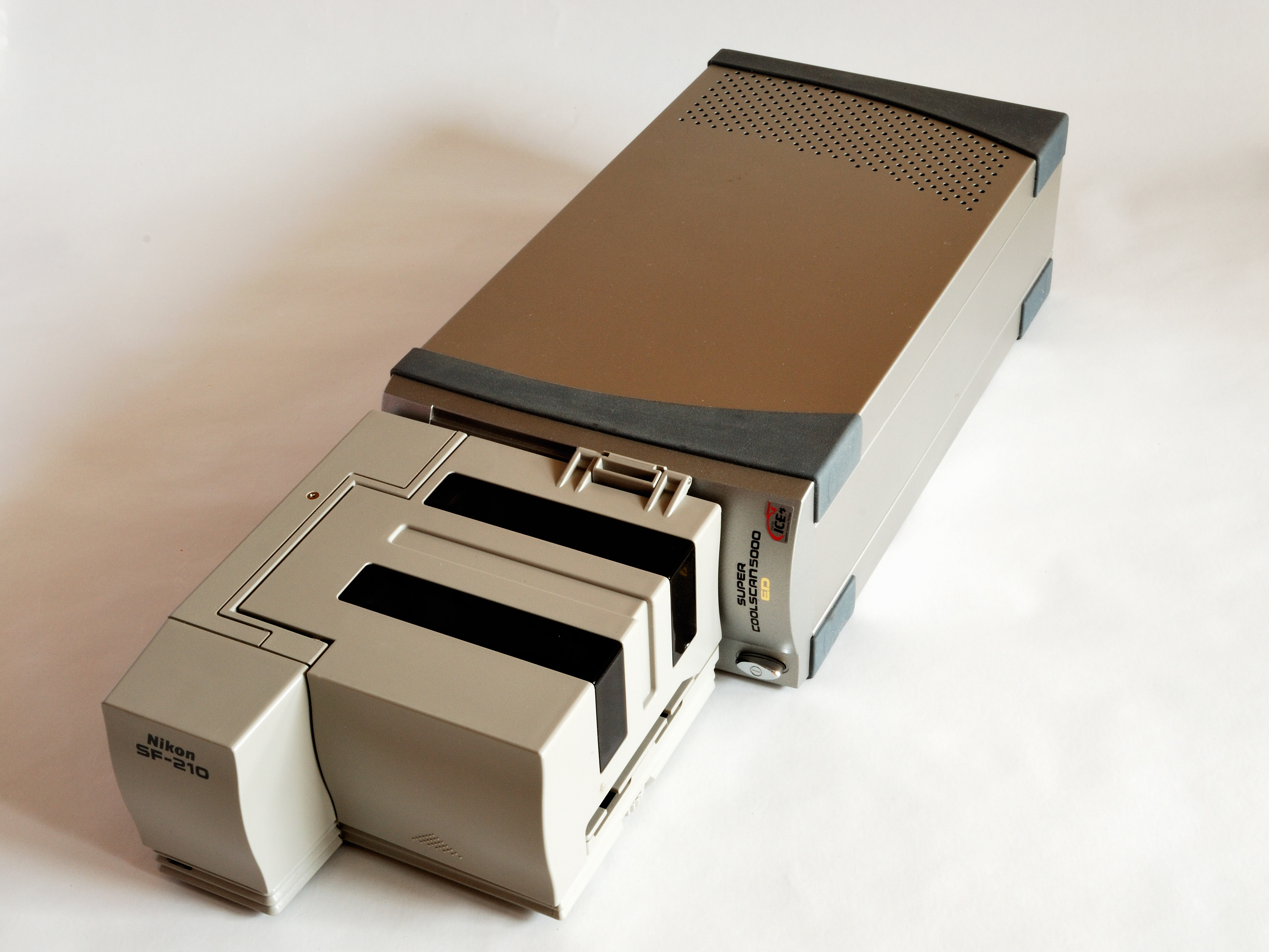 Nikon Coolscan 5000 ED with the slide feeder SF-210